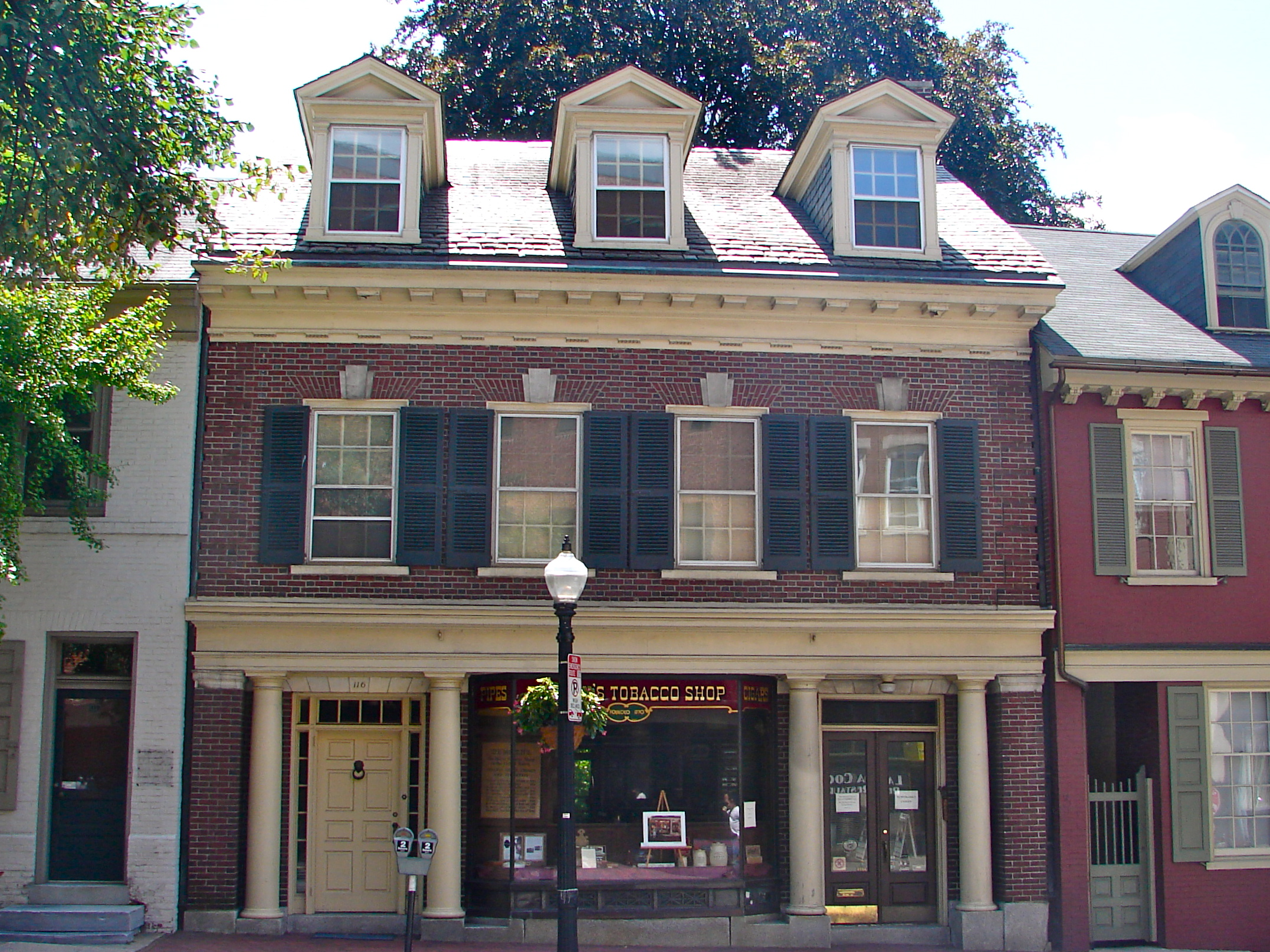 Demuth Tobacco Shop in Lancaster, Pennsylvania at 25 E. King Street in Lancaster, Pennsylvania. Claims to be the oldest tobacco shop in the United States. Founded by Christopher Demuth in 1770 and operated by him until 1815. At least 5 generations of the Demuth family operated the store though at least 1937. Also home of the modernist painter Charles Demuth (unclear whether his studio was in this building or next door). Now an art museum of Charles Demuth's paintings. Also part of the Lancaster Historic District on the NRHP since November 15, 1979. The historic district is roughly bounded by Howard Avenue, Queen, Church, Duke, Chestnut and Plum Streets.